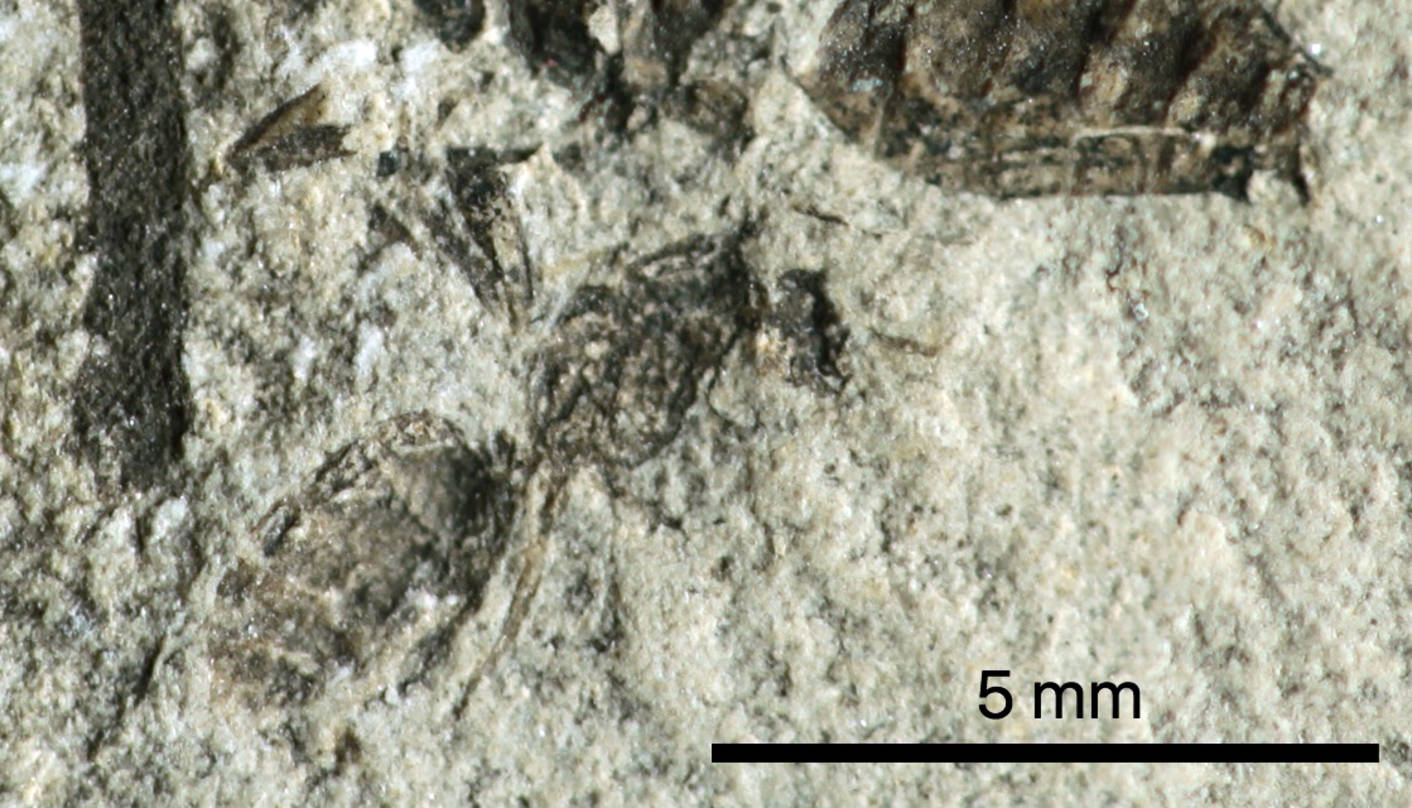 View of a Emplastus ocellus paralectotype male. (holotype of " Formica ocella var. paulo major" jr synonym of E. ocellus) Universalmuseum Joanneum Graz specimen UMJ77646C. Universalmuseum Joanneum Graz, Styria, Austria. Burdigalian; Radoboj deposits; Radoboj area, Krapinsko-Zagorska, Croatia.